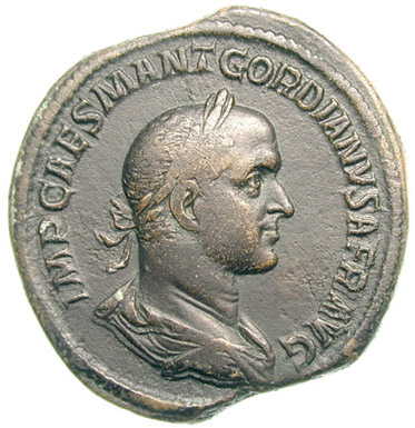 Gordian II, portrait from a sestertius